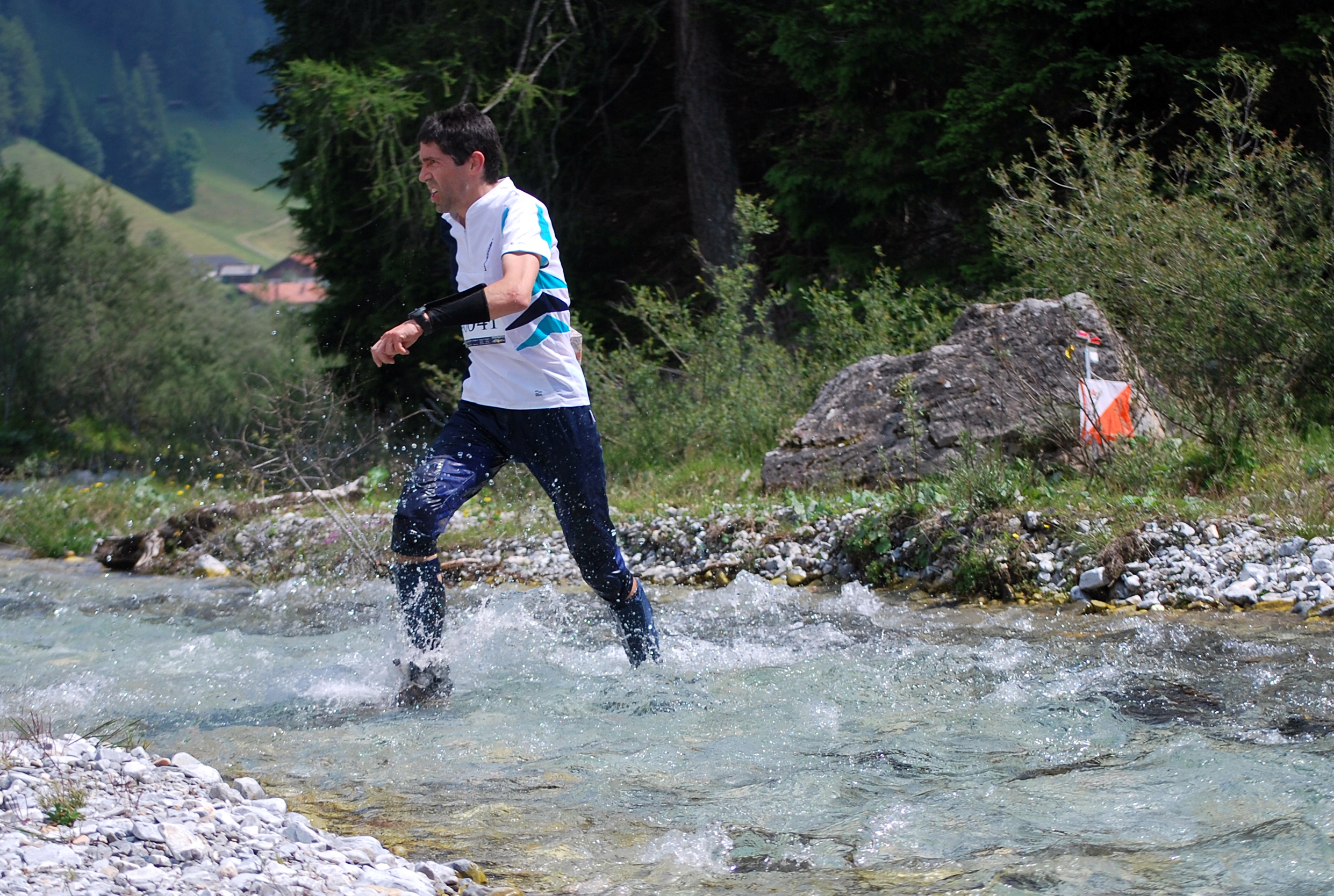 Orienteer crossing a river. 6 Days of Tyrol 2010, Obernberg